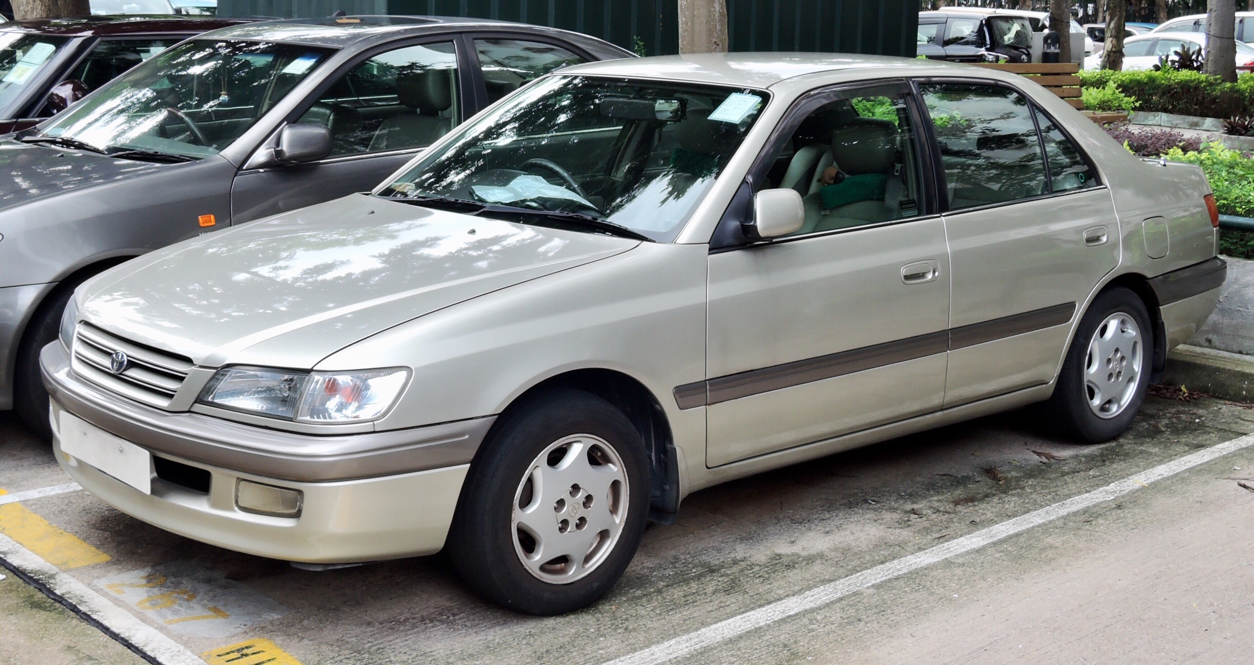 A 2000 Toyota Corona taken in Tsuen Kwan O, Hong Kong.